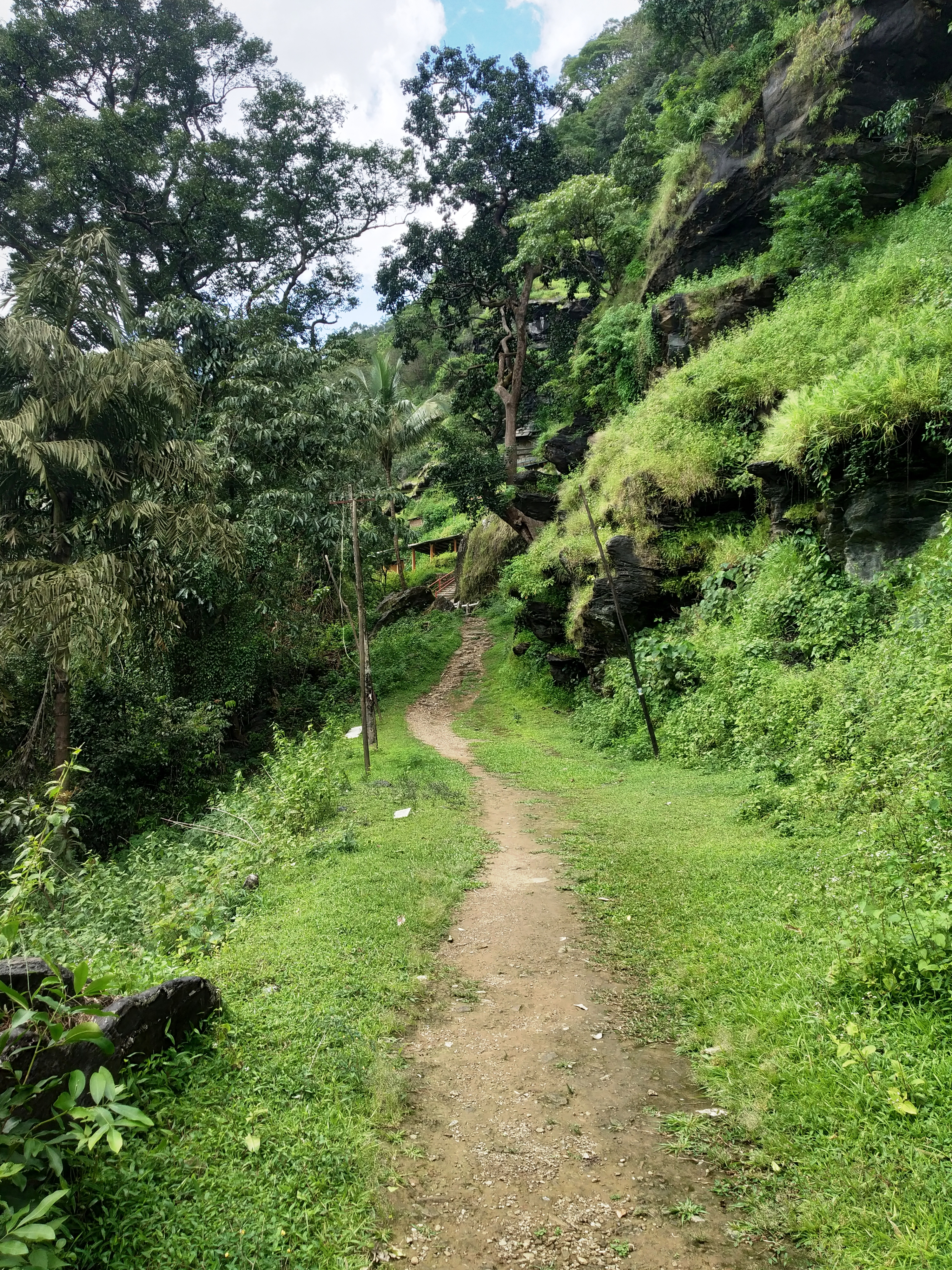 ದೇವಸ್ಥಾನಕ್ಕೆ ಹೋಗುವ ದಾರಿ